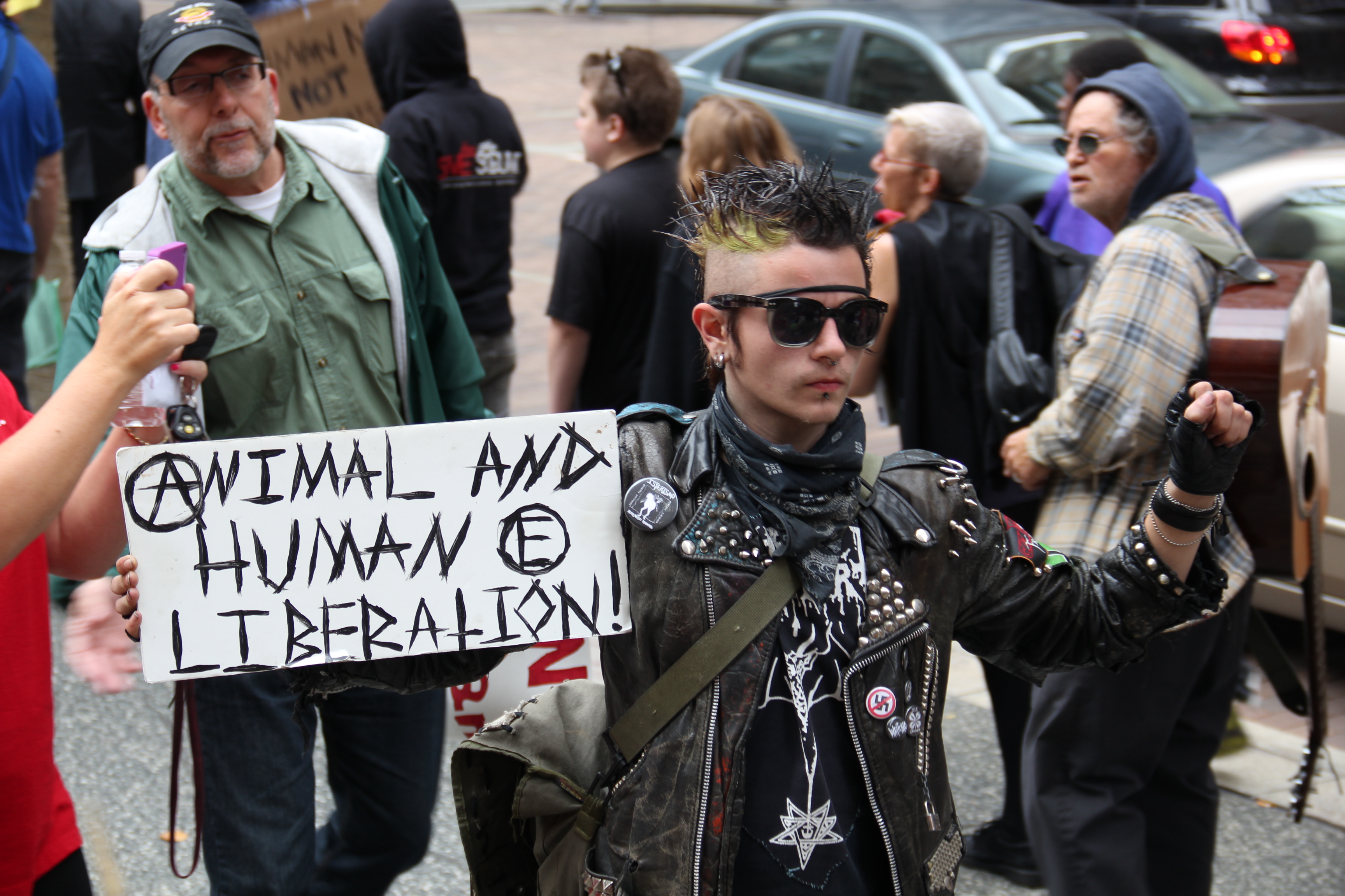 Reference via